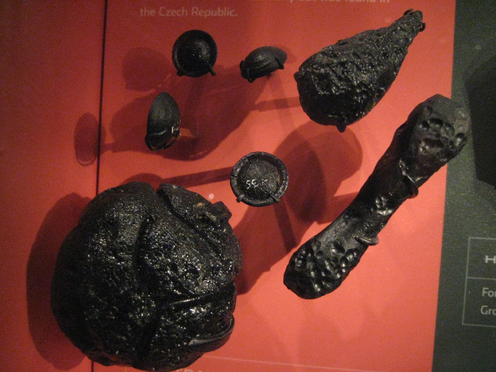 Astralasian tektites. 700,000 years old. Found in Southeast Asia and Australia. AMNH.